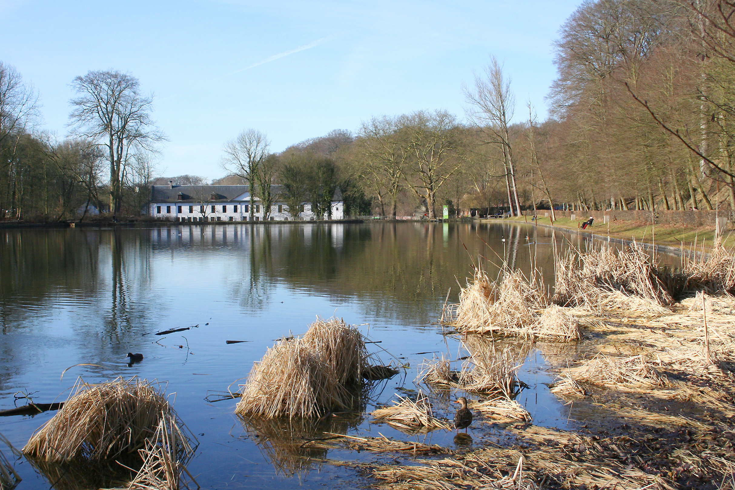 Auderghem (Belgium), the Watermill Pond and the buildings of the Rouge-Cloître (Red Cloister) Abbey founded in the XIVth century by the hermit Egide Olivier and the canon Guillaume Daniels.